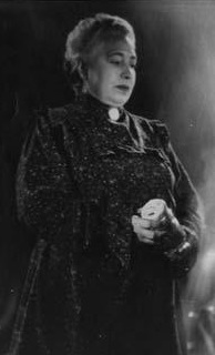 Pilar Gomez-actriz